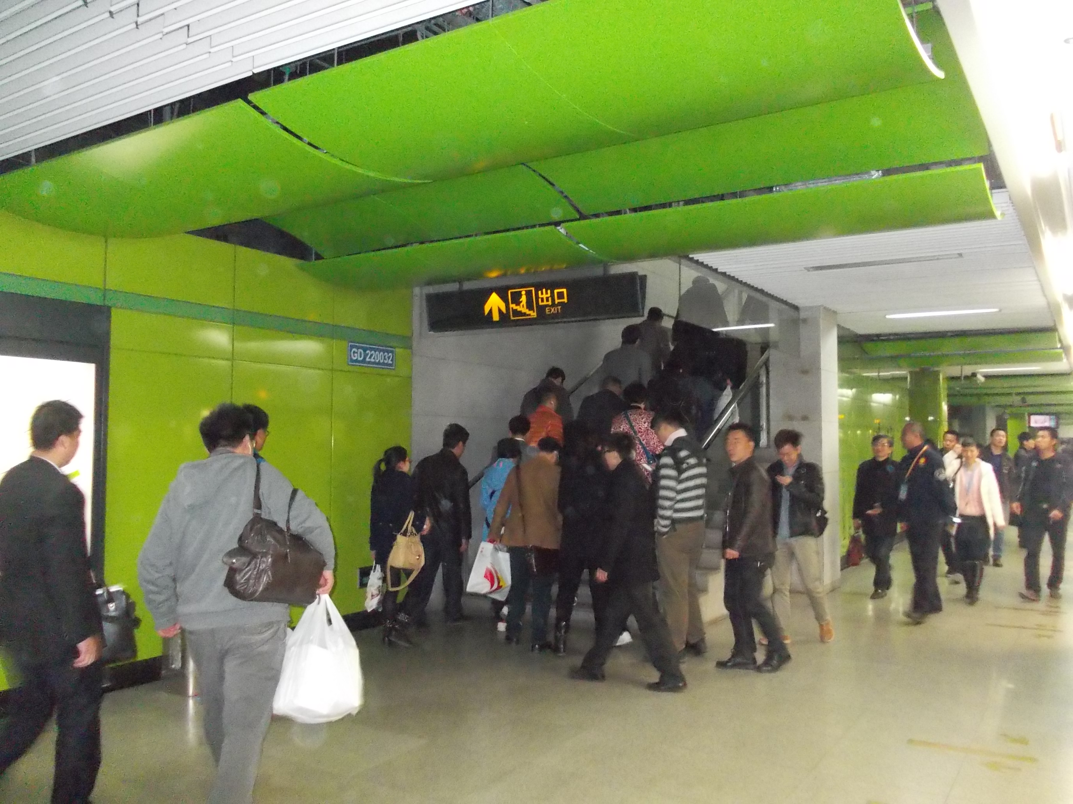 Shanghai Metro - Line 2 - Chuanshua